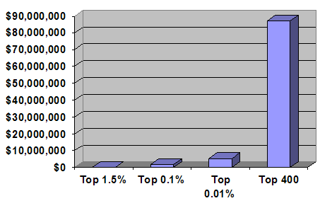 I created the graph myself using US Census Data as well as data from a New York Times article found here. graph labels missing!!!!!